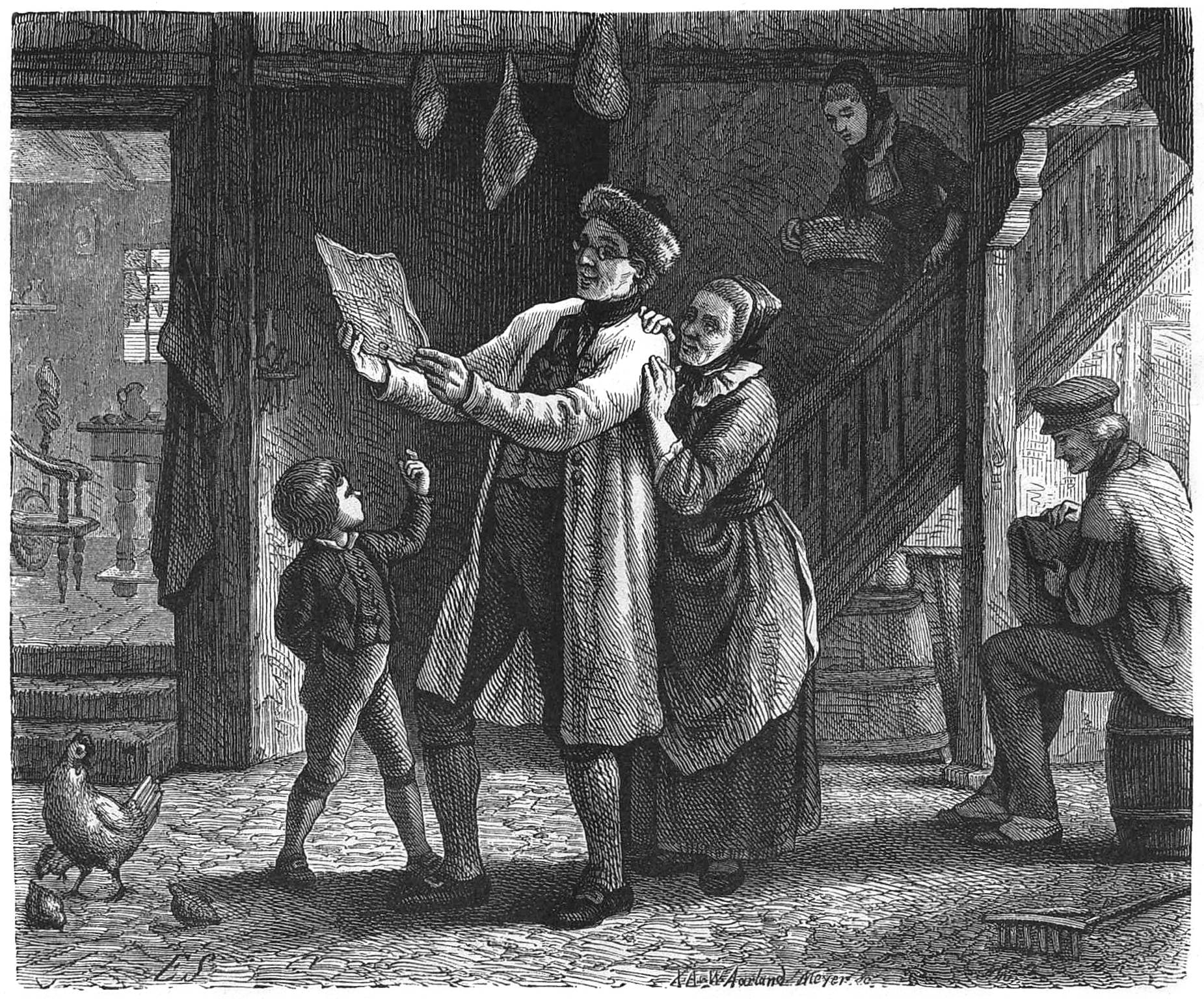 caption: "Der erste Brief."